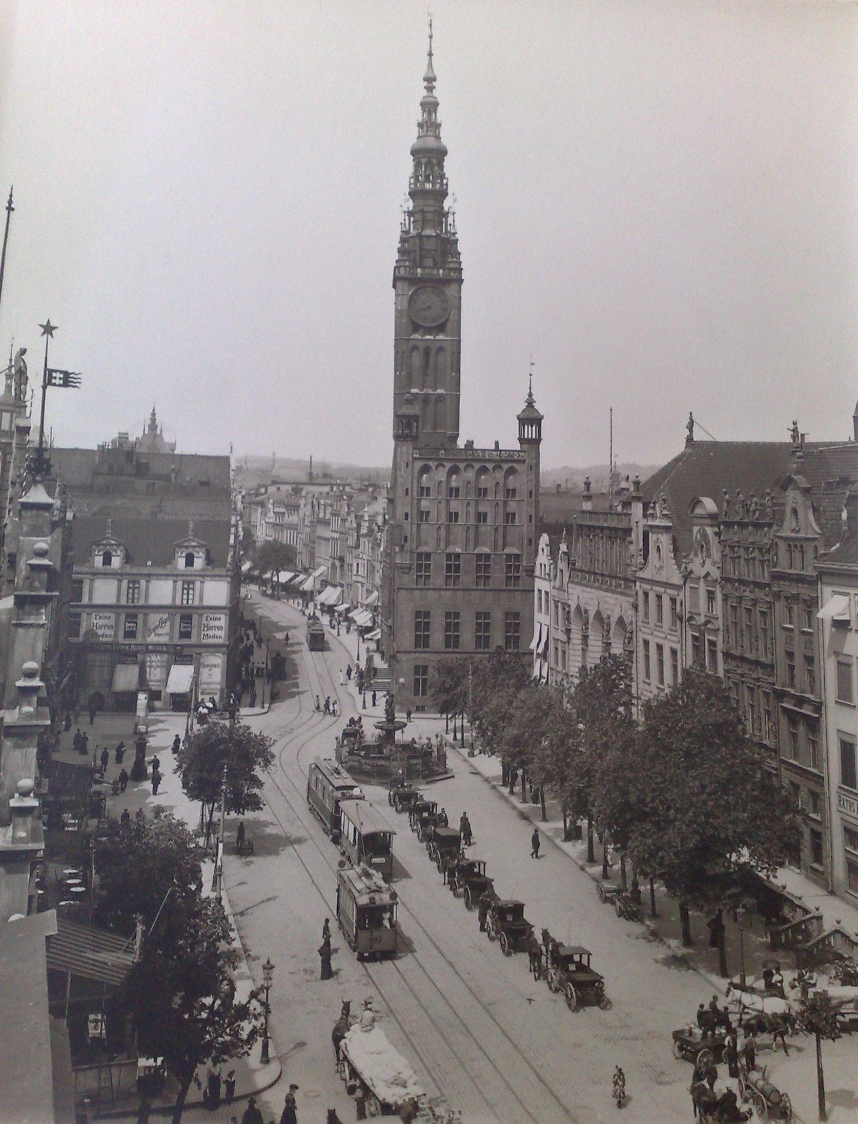 Gdańsk Long Market Square in 1906.